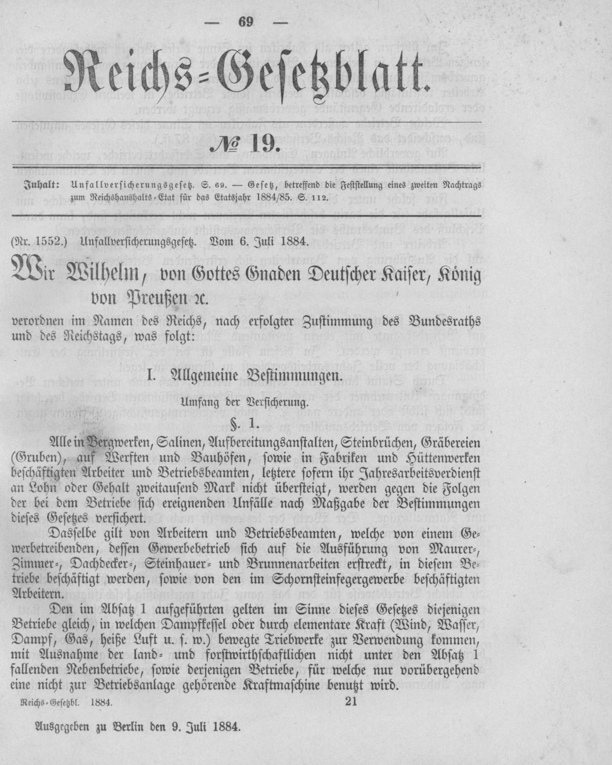 Scan from the Imperial Law Gazette of Germany, 1884